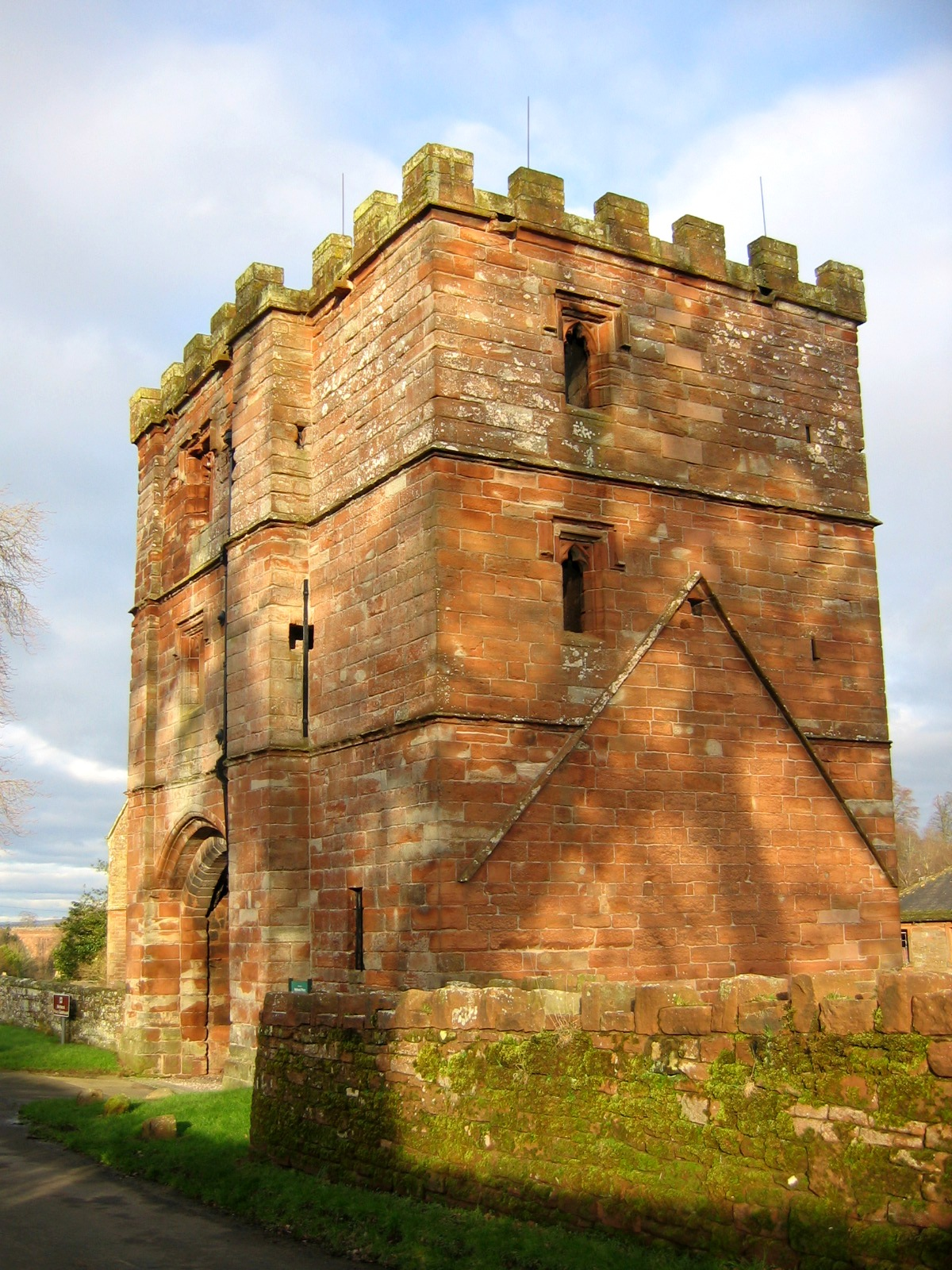 Wetheral Priory Gatehouse, Cumbria, England.